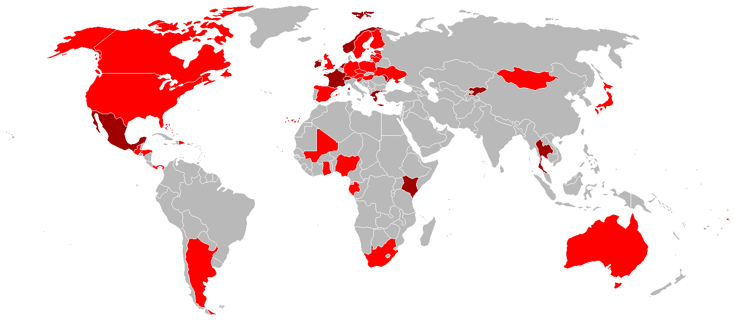 countries-operators of Saab 340